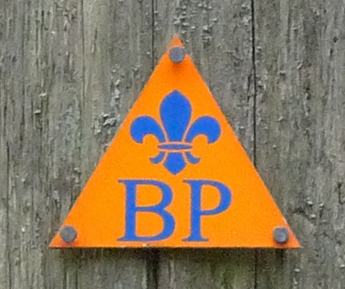 Triangular orange trail marker on the Baden-Powell Trail, North Vancouver.